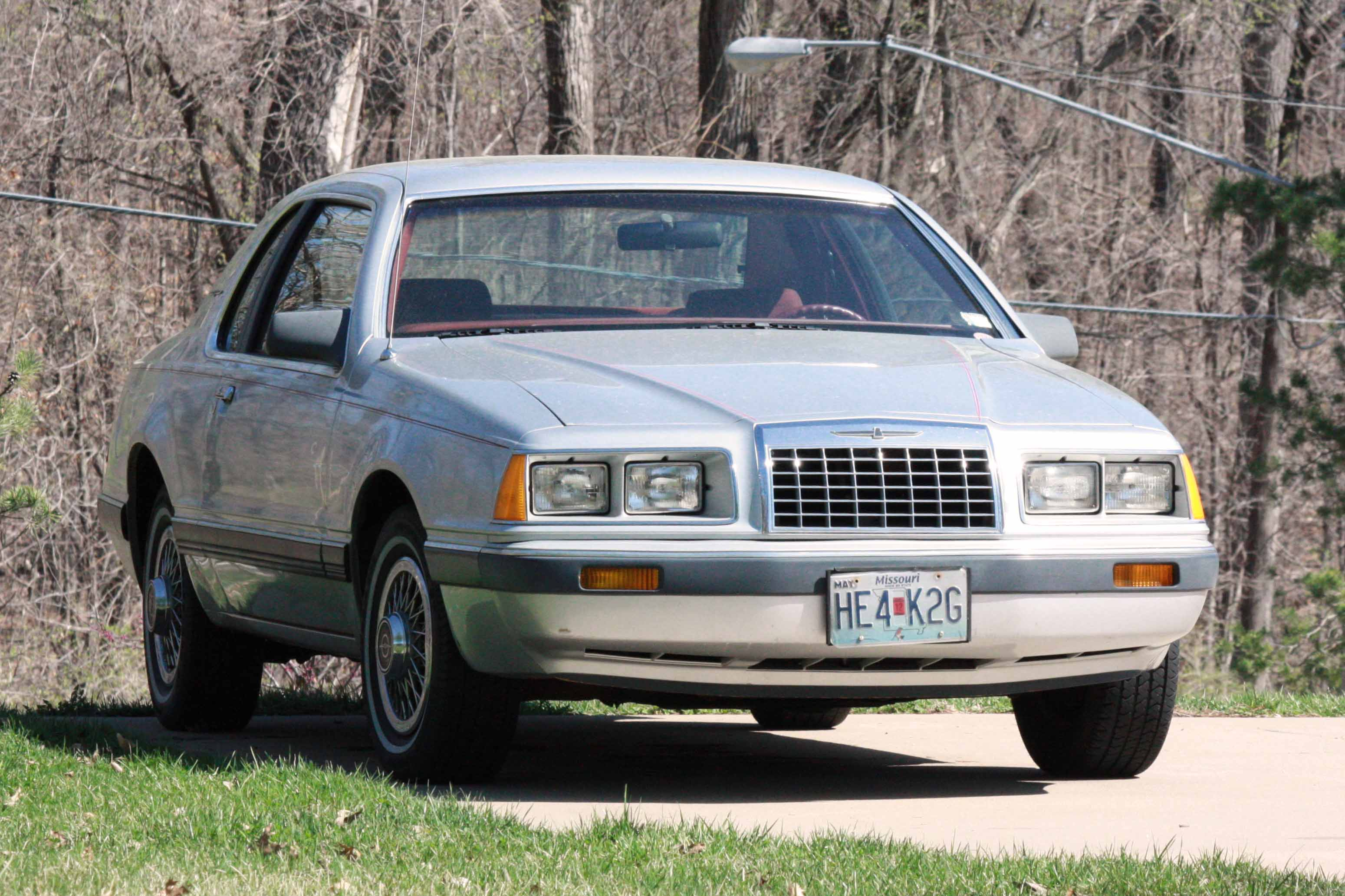 1983 Ford Thunderbird